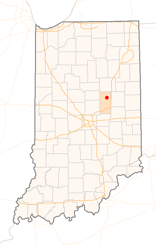 Red Dot map of Indiana, showing the location of Alexandria